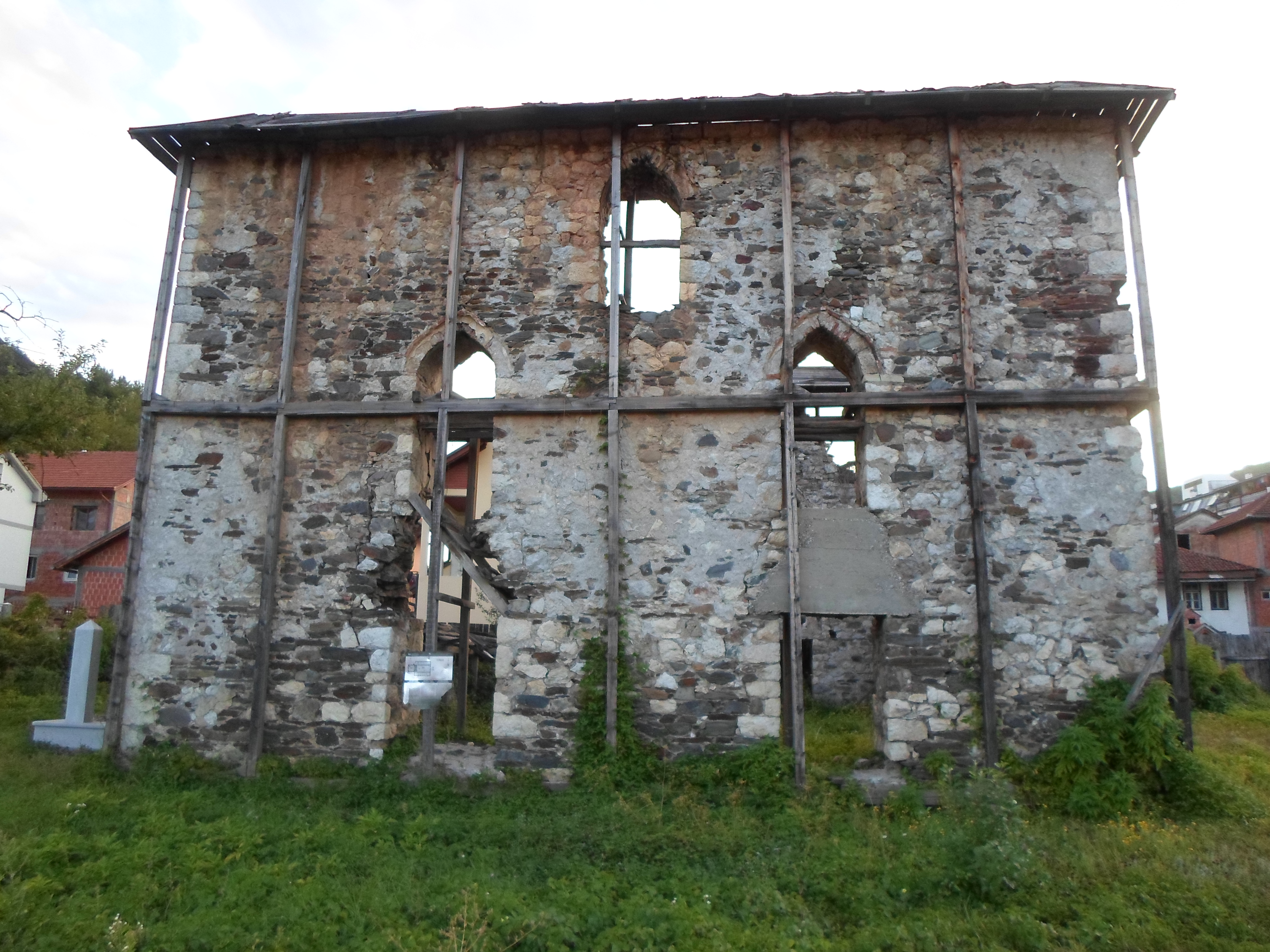 Остаци Кукавичине џамије - Проглашена под називом Џамија и медреса Мехмед-паше Кукавице, Фоча ID добра: NKD720